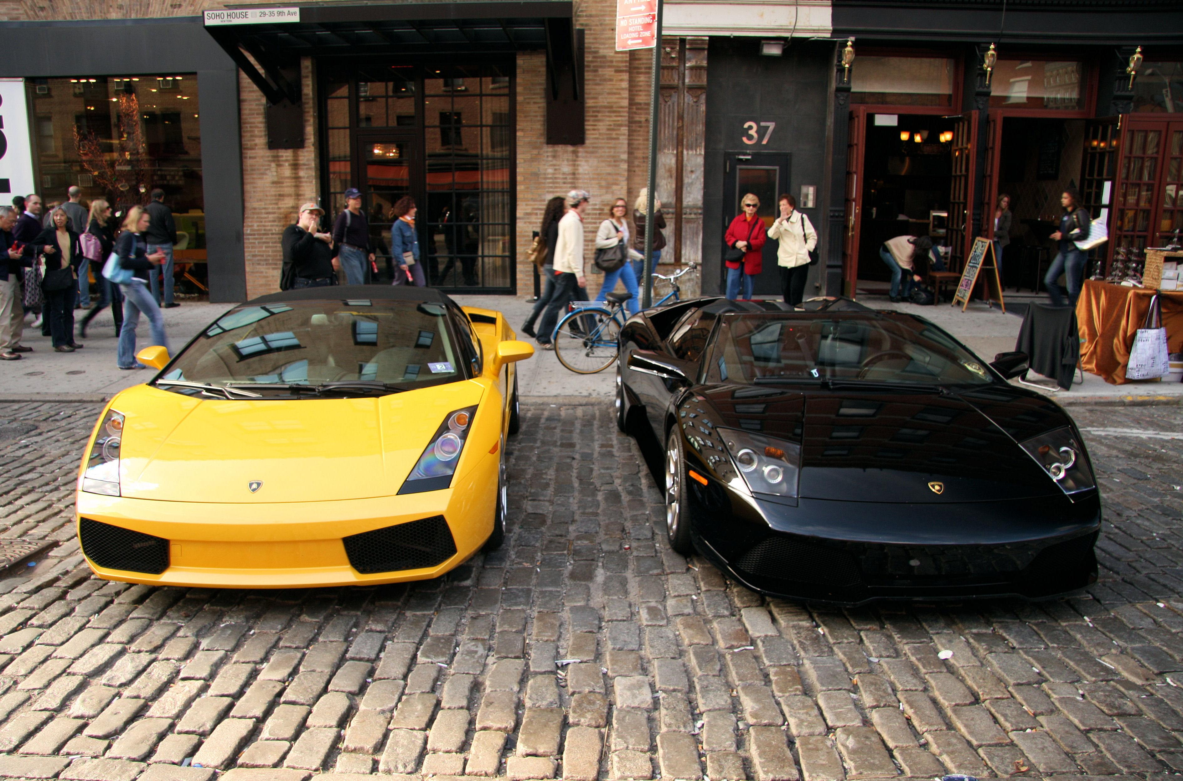 Lamborghini Gallardo Spyder and Murciélago